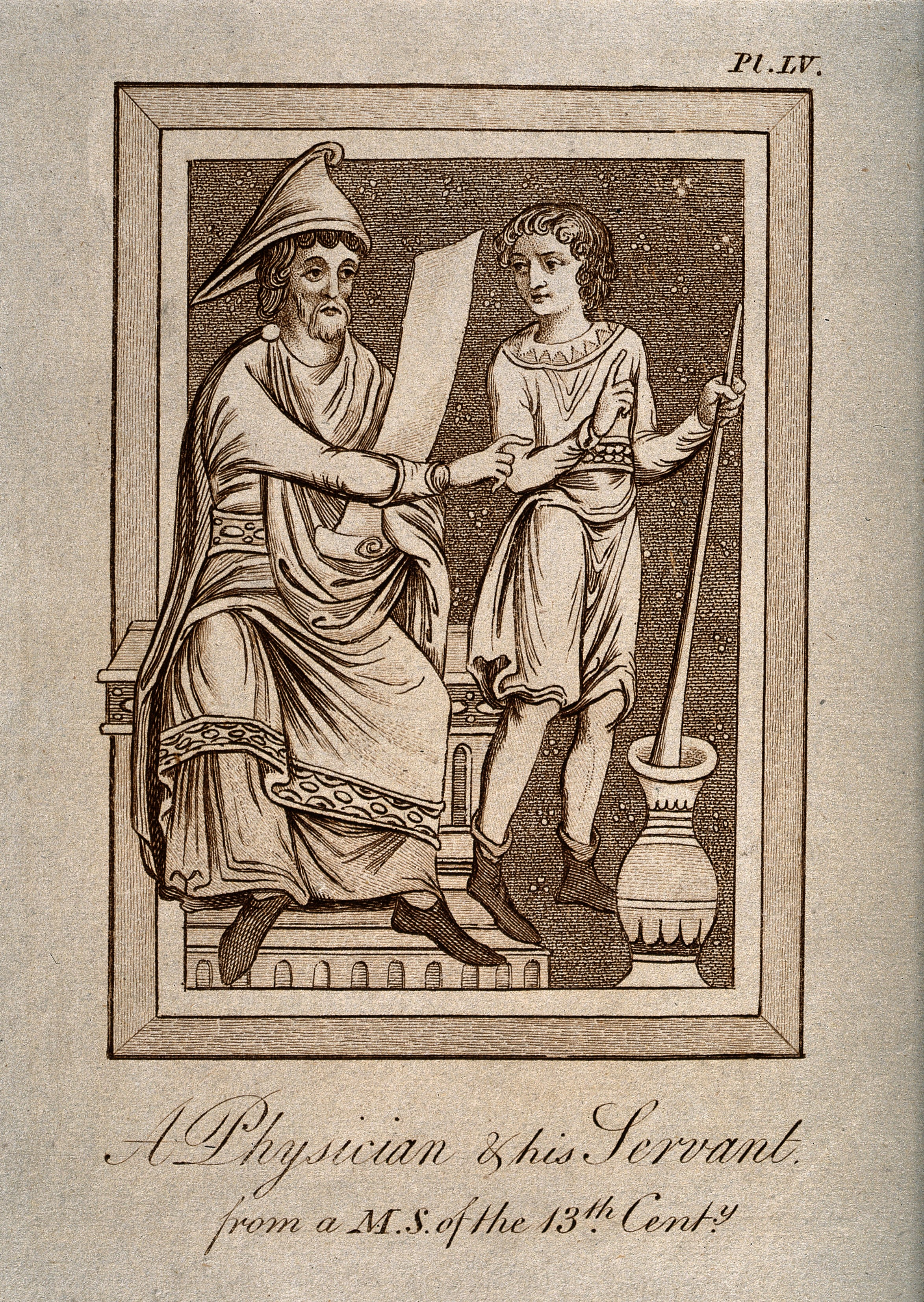 A physician reading a recipe instructs his assistant who is mixing with a pestle and mortar. Engraving after a twelfth century manuscript. Iconographic Collections Keywords: PHYSICIAN; Physicians